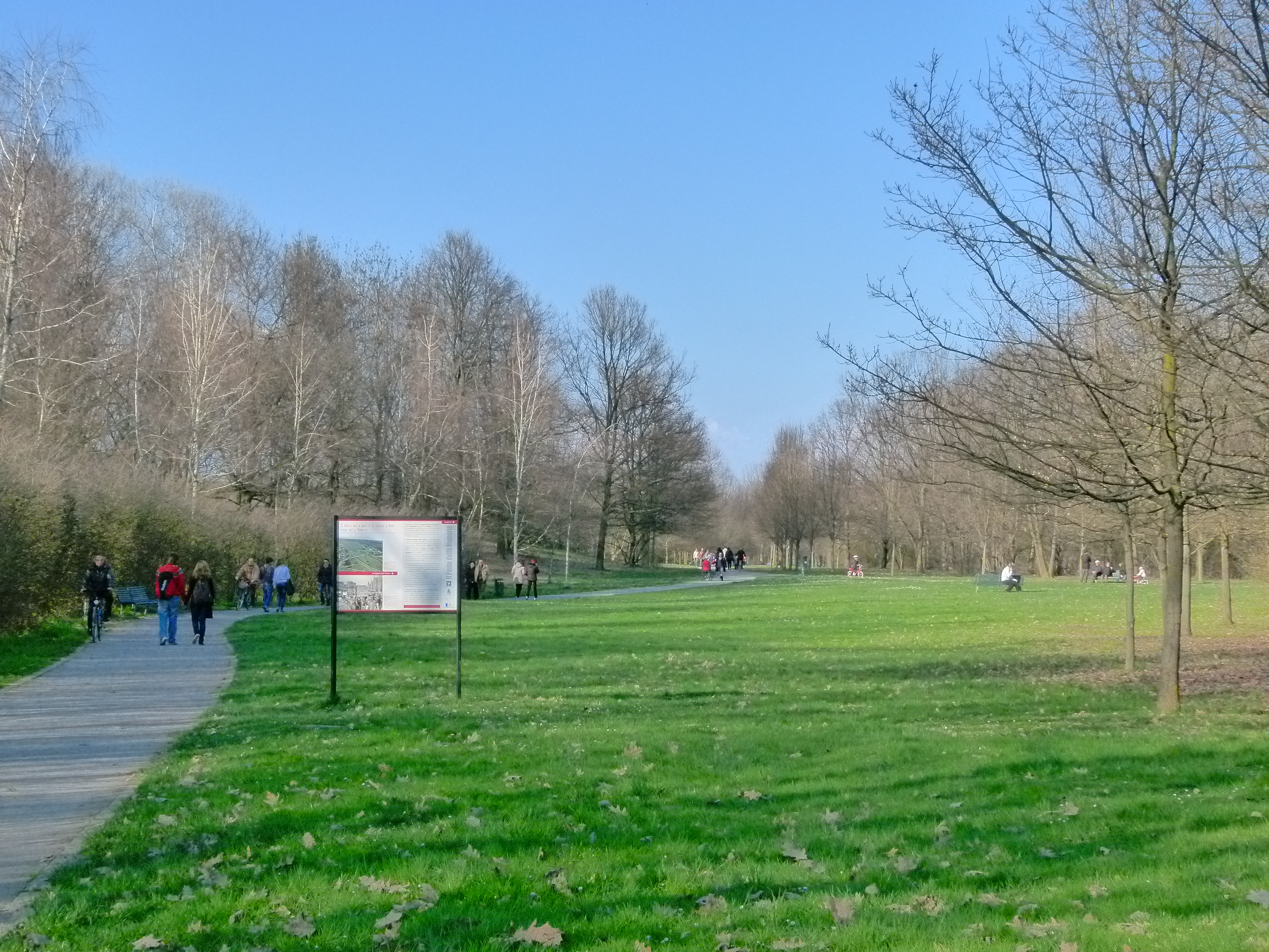 The Regional Natural Park Bosco delle Querce (Oaks' Wood), built after the Seveso Disaster on the "A" zone. It contains two special tanks buried and filled with the contamined material.